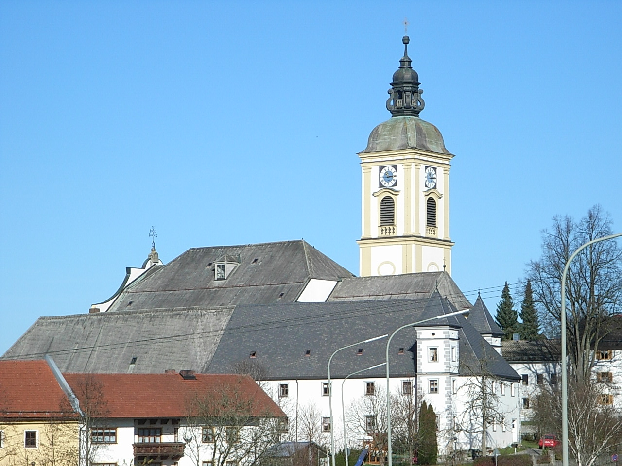 Rinchnach, view of St John the Baptist Parish Church (church of the former Benedictine provosty) from south-west with the rectory (former cloisters) in midground.